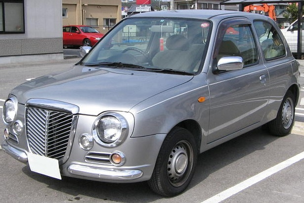 1999 - 2003 Nissan Micra Bolero